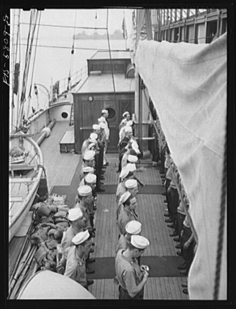 Hoffmann Island, merchant marine training center off Staten Island, New York. Trainees aboard the schooner Vema.